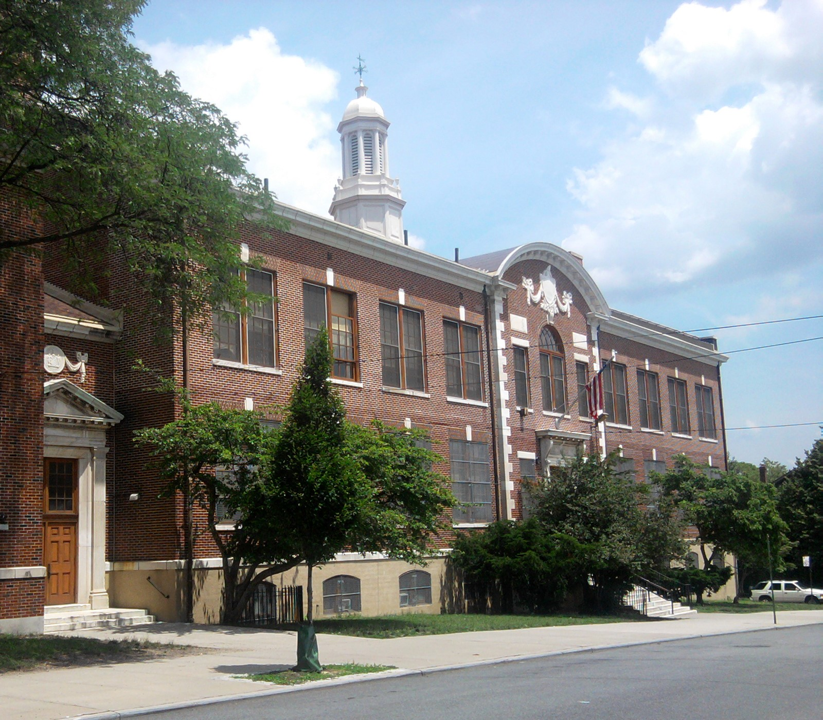 Looking east across 84th Avenue at PS 131 on a mostly sunny midday.